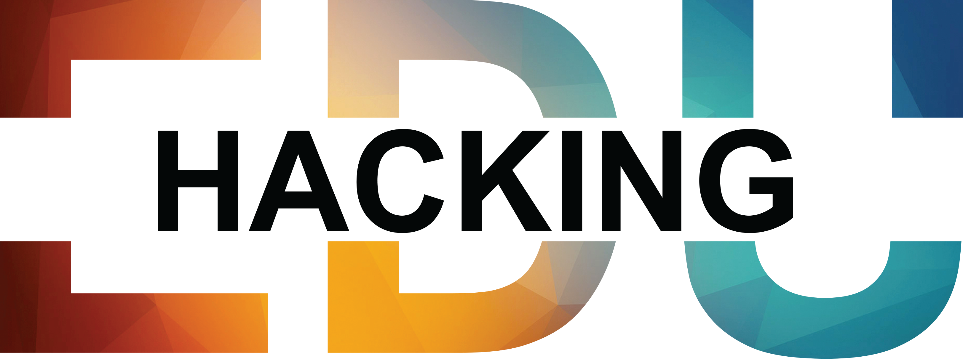 Colored version of HackingEDU company logo.